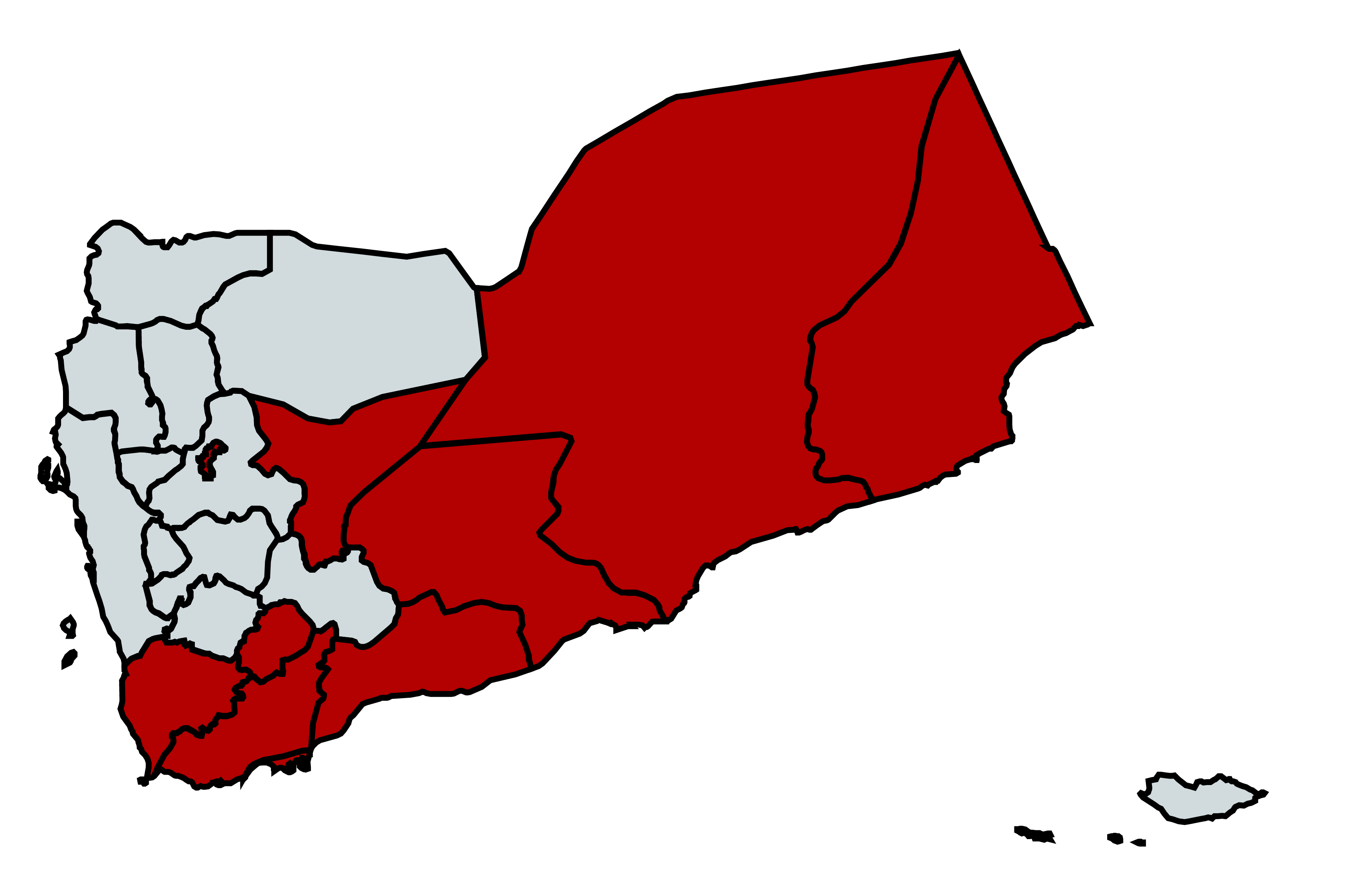 Map of Yemeni Governorates that have coronavirus